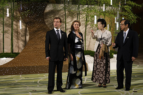 TOYAKO ONSEN, HOKKAIDO, JAPAN. During the meeting with the participants of the Junior G8 summit. Svetlana Medvedev is to the right. Japanese Prime Minister Yasuo Fukuda and wife Kiyoko.